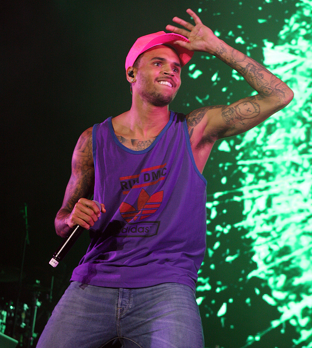 Chris Brown Performs at Supafest 3 Sydney, Australia 2012.